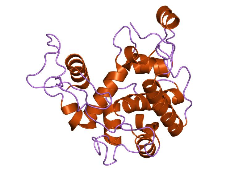 Cartoon representation of the molecular structure of protein registered with 2baa code.